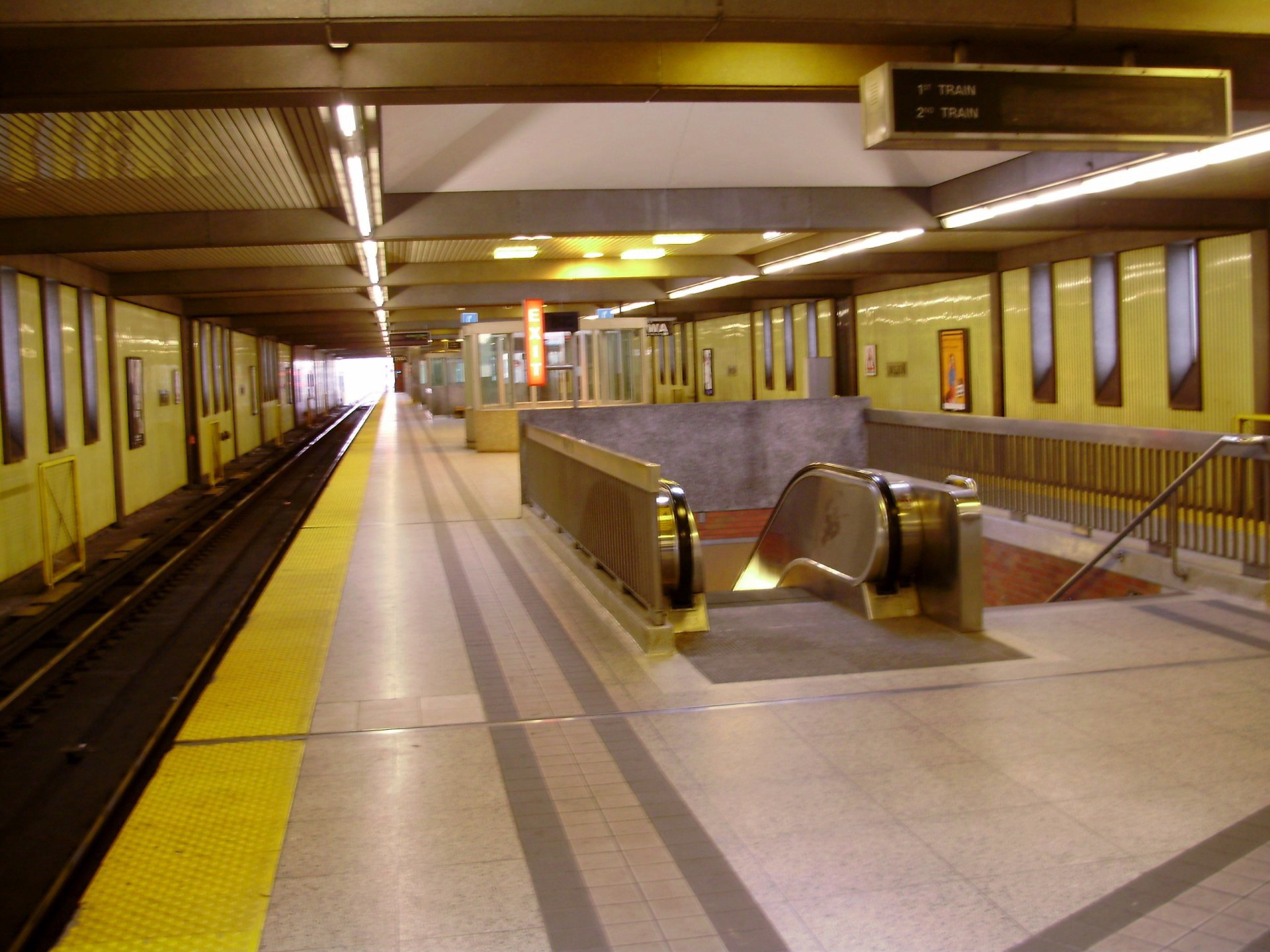 Looking south down the subway platform of the Toronto Transit Commission's Wilson station in North York, Ontario.